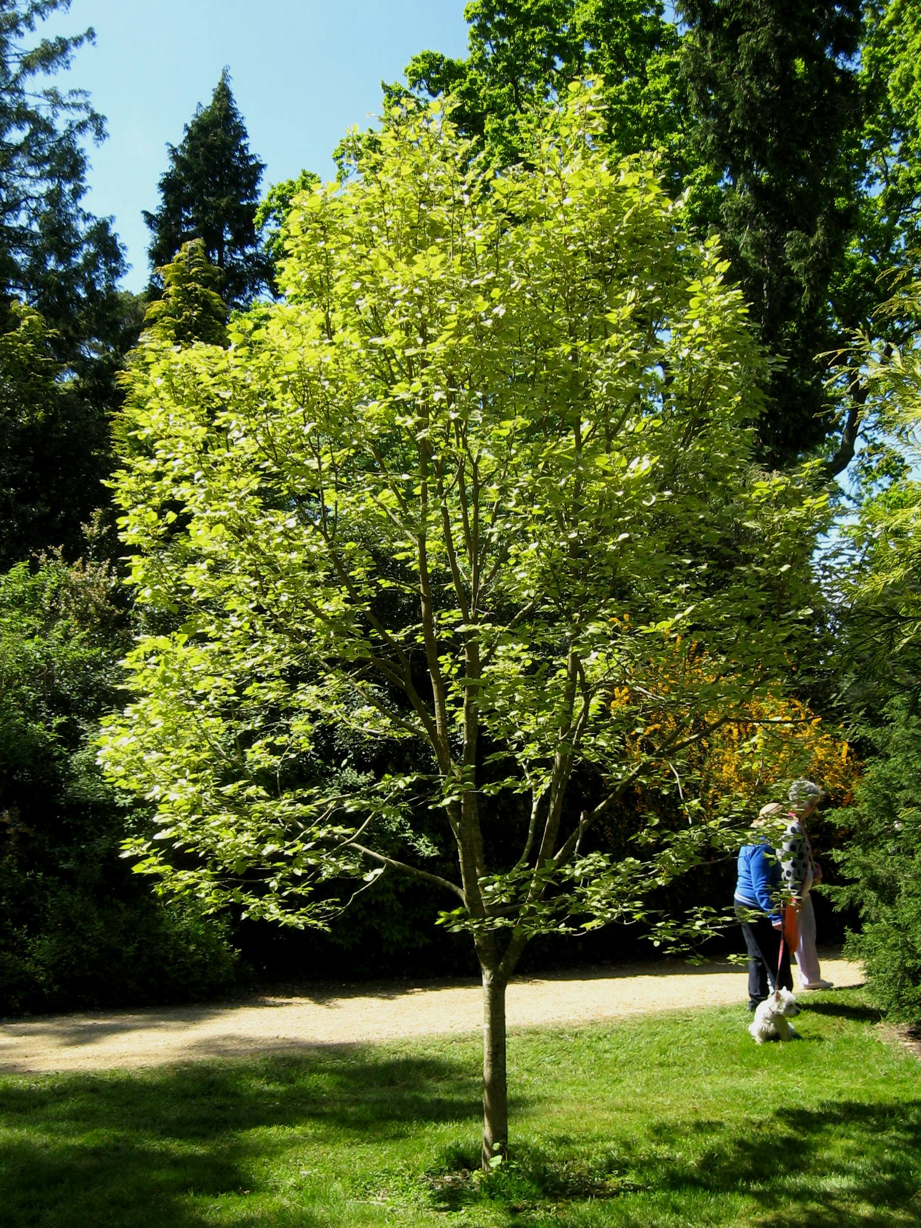 Photograph of Henry's Lime at Exbury, Hants., UK taken May 2013